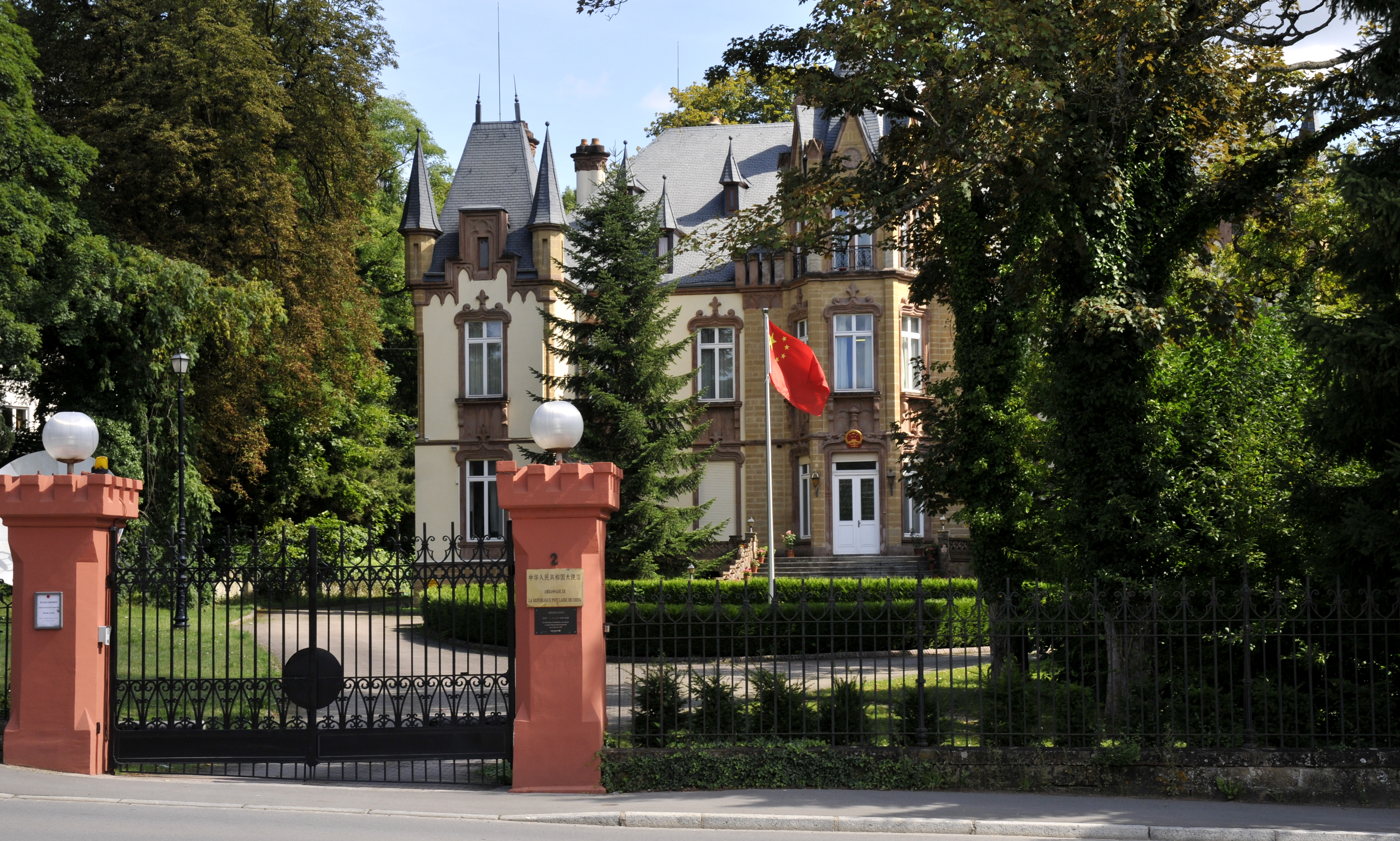 Embassy of the People's Republic of China in Luxembourg, Dommeldange